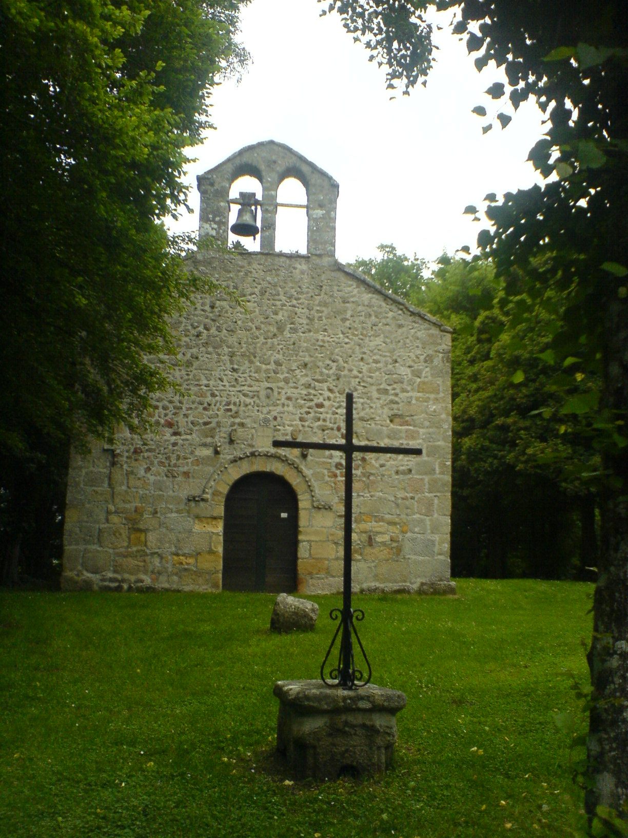 church